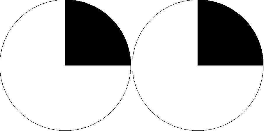 Right superior quadrantanopia. The areas of the visual field lost in each eye are shown as black areas. This visual field defect is characteristic of damage to Meyer's loop (part of optic radiation) on the left side of the brain.